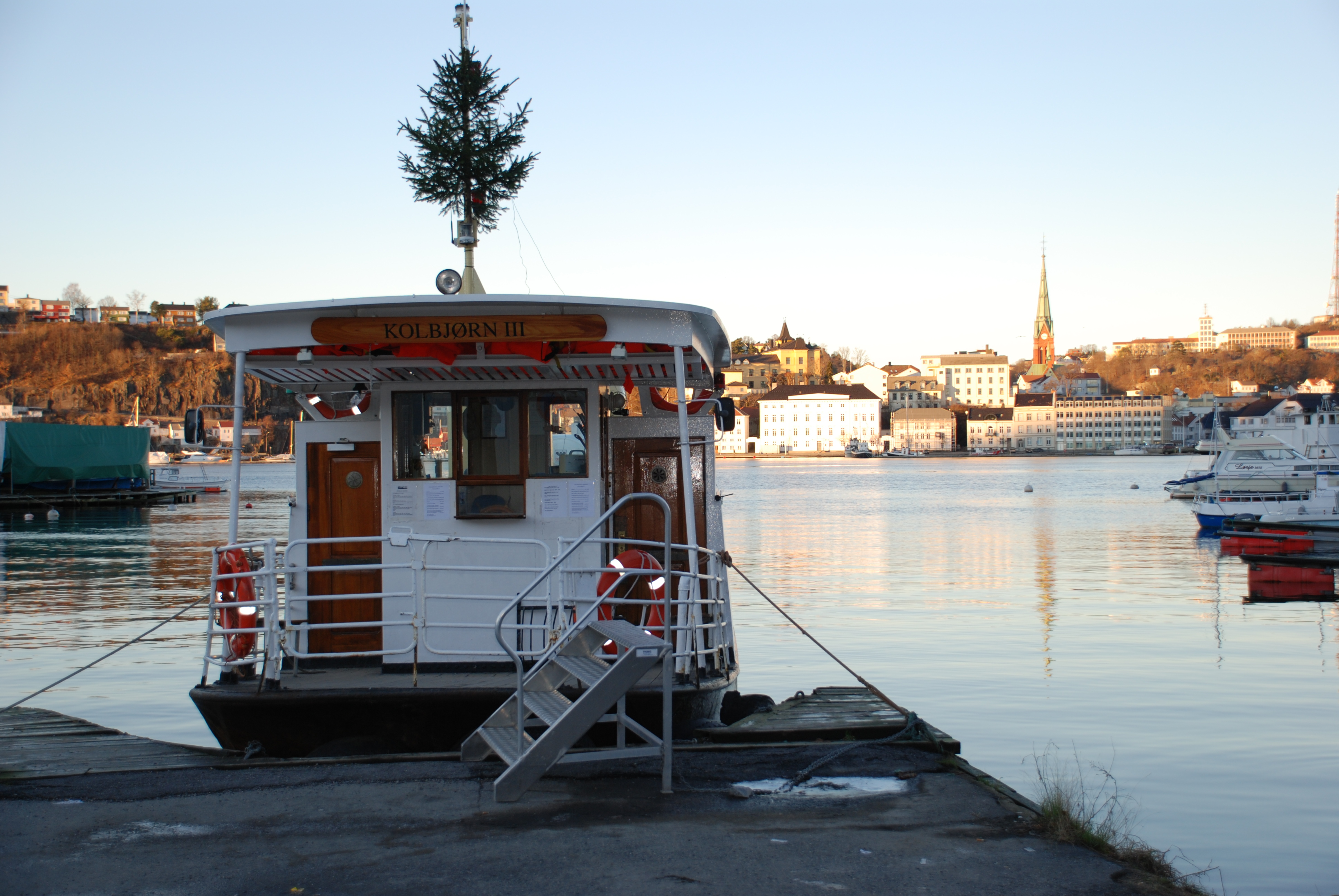 Kolbjørn III i juleskrud.